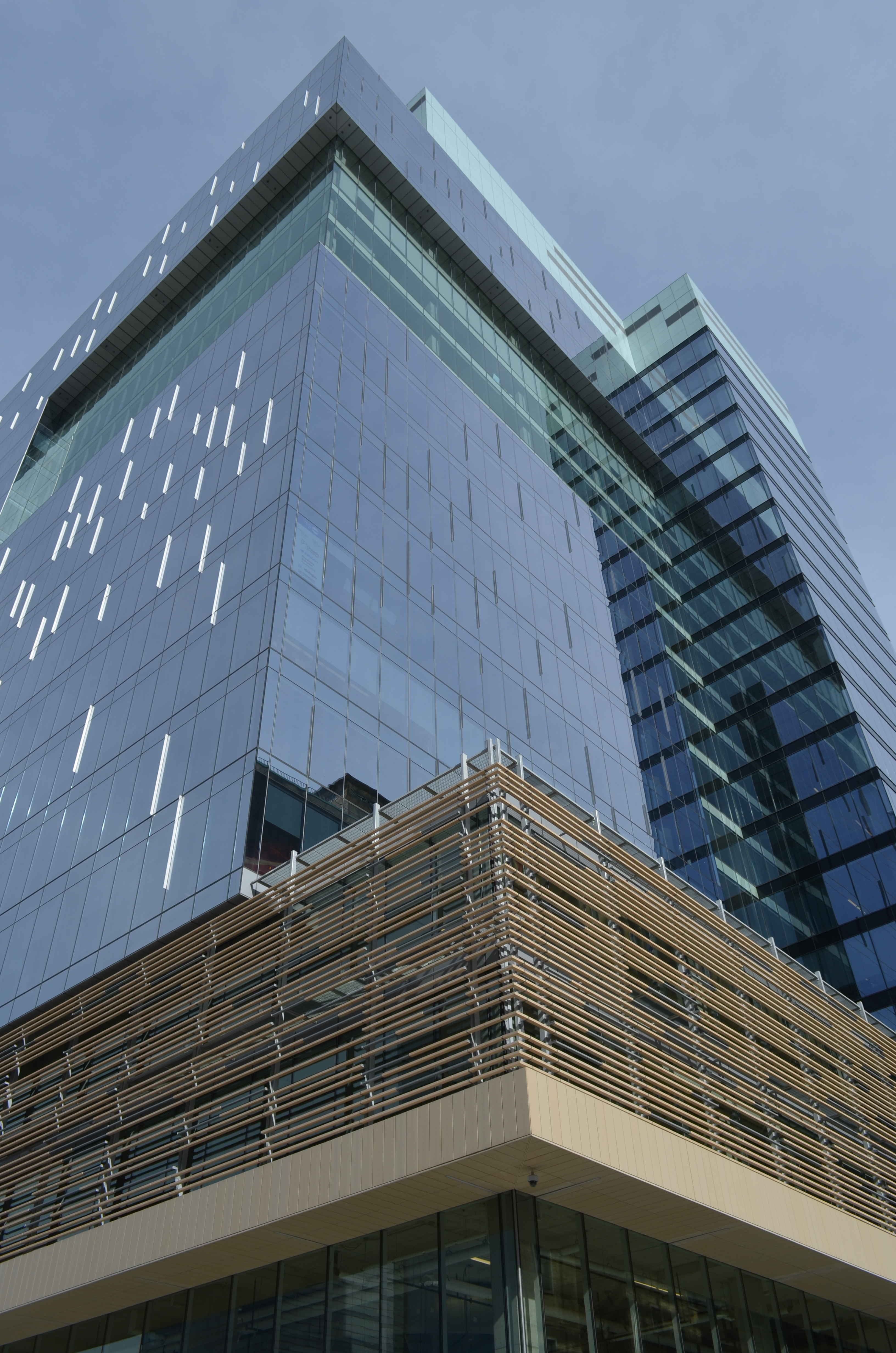 MaRS Phase 2 in 2014